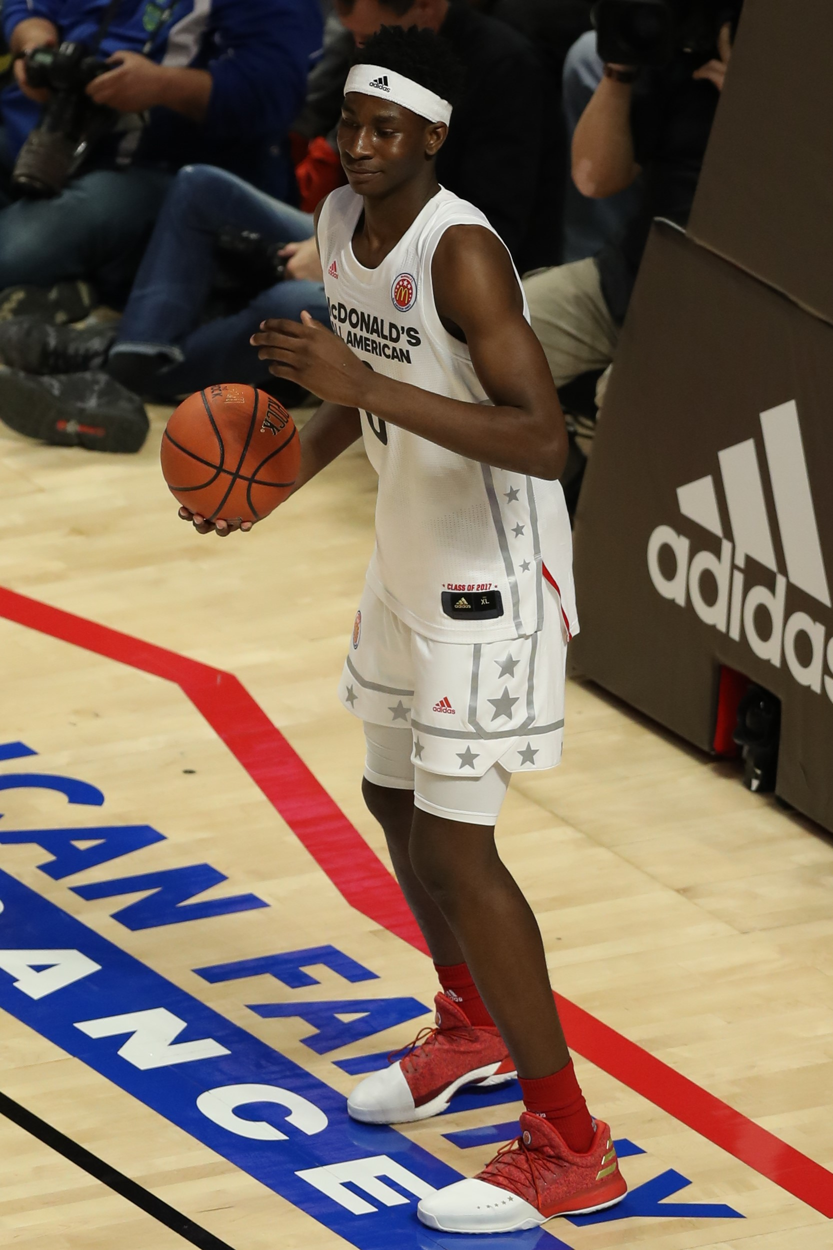 Jaren Jackson Jr. at the w:2017 McDonald's All-American Boys Game